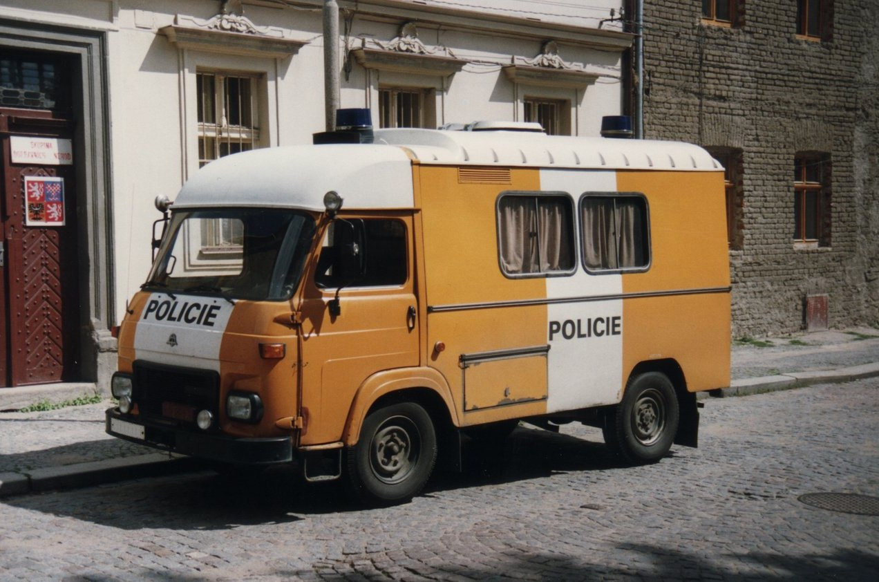 Police van in the Czech Republic. Same colors were used by communiste police (Public Security - Veřejná Bezpečnost) in former Czechoslovakia. (Location and date of the photo unstated.)